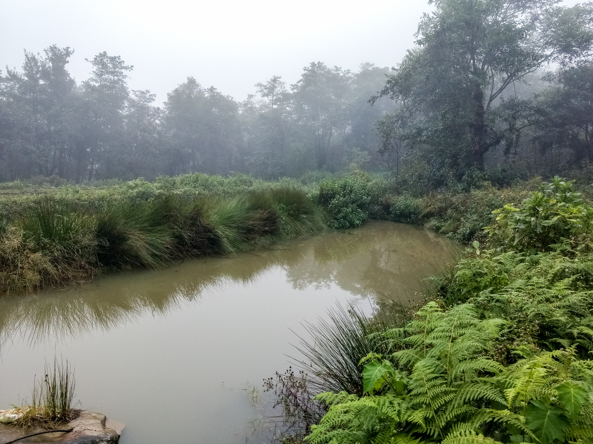 Black-tailed Crake Habitat